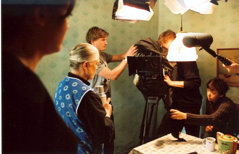 On the set of Im Sommer sitzen die Alten, Director: Beate Kunath (on the right), actress Maria Mägdefrau on the right (back to camera), Chemnitzer Filmwerkstatt